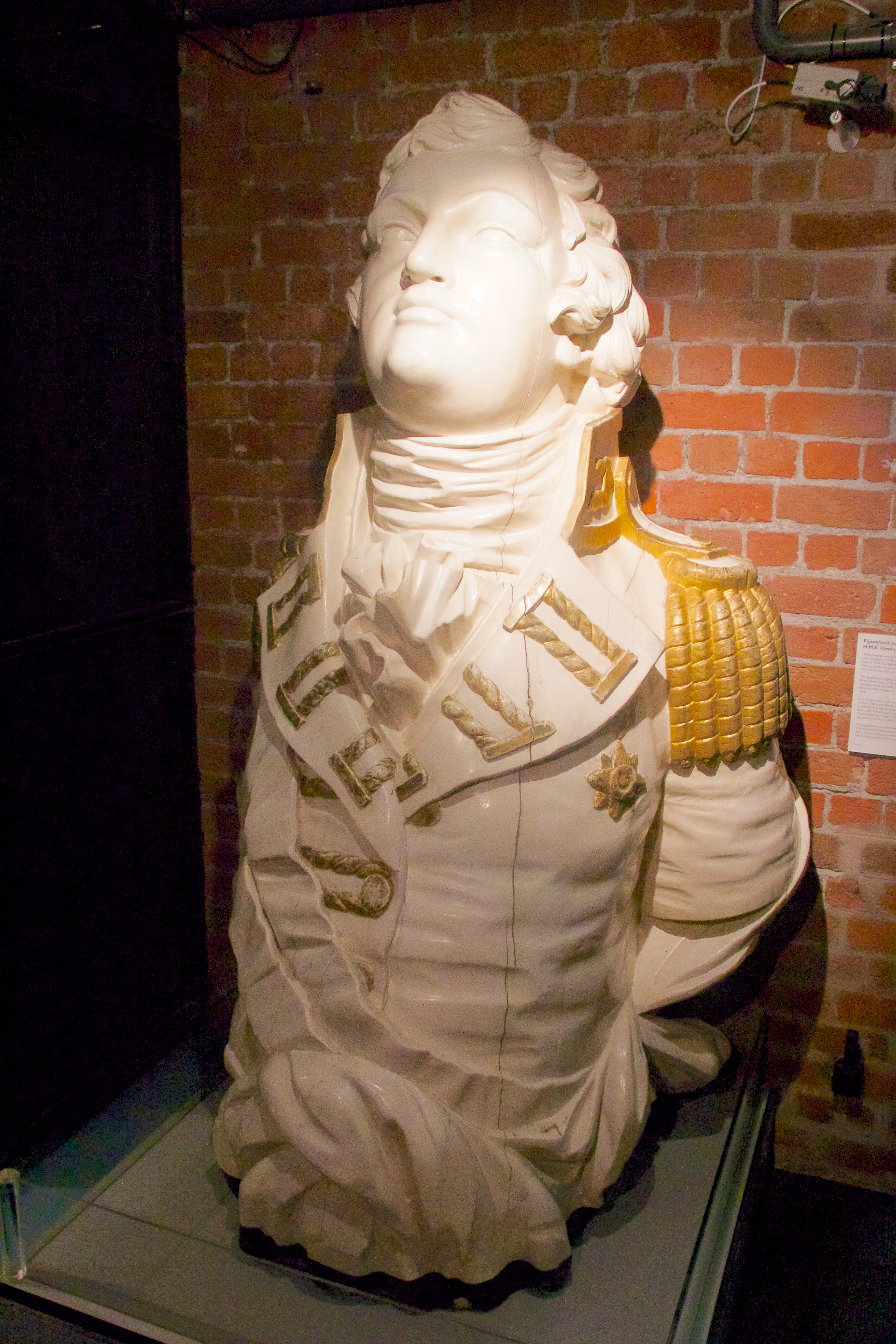 Figurehead from H.M.S. Hastings (1819). 1966.201. On display at the Merseyside Maritime Museum.